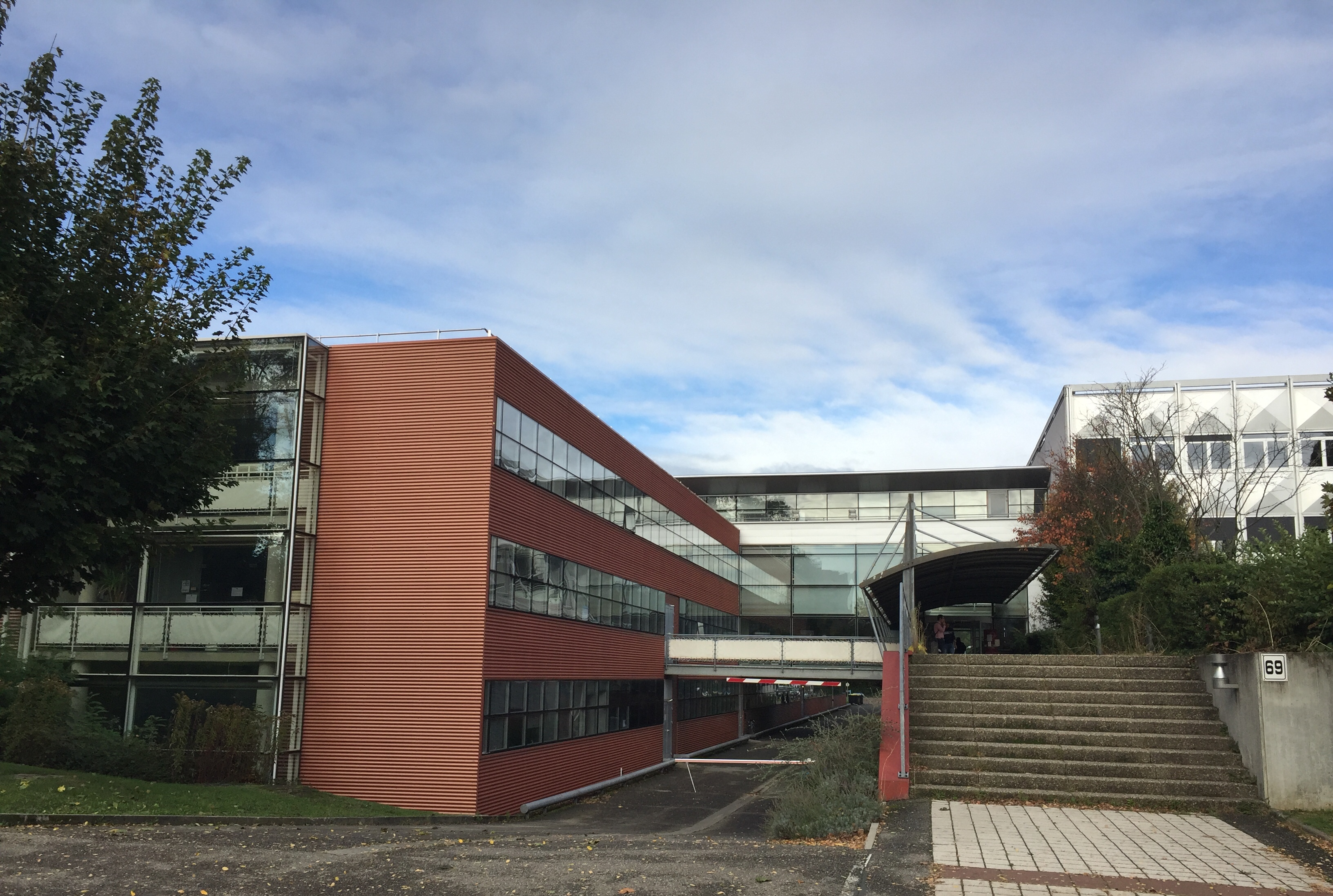 IPCMS main entrance, building 69 on Cronenbourg campus in Strasbourg